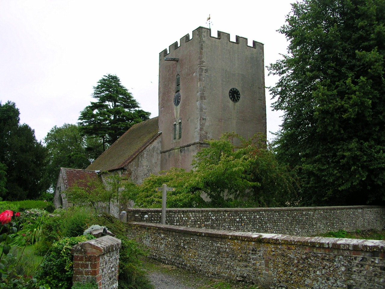 Singleton parish church, West Sussex, England.